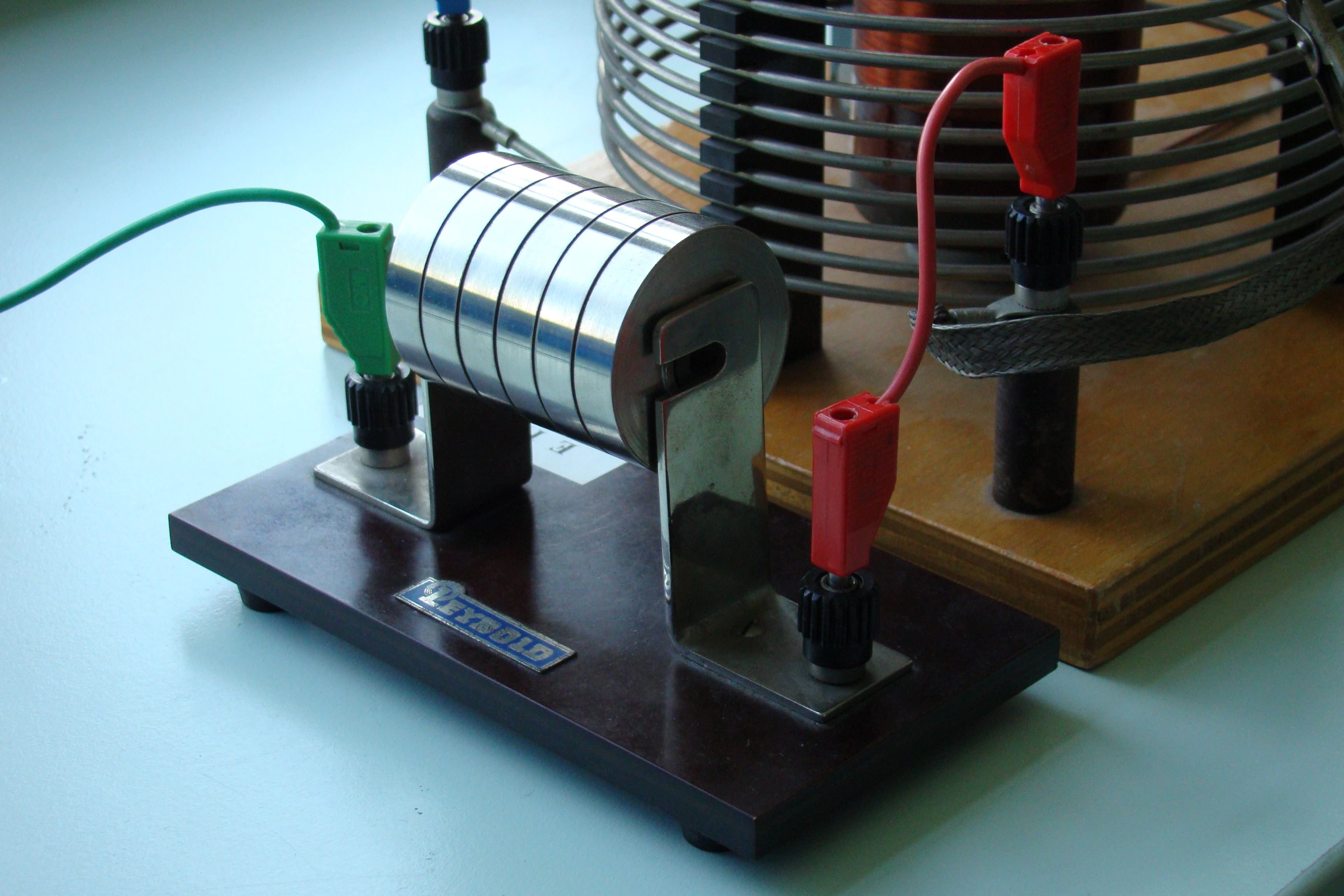 Multiple spark gaps in the 8 kV primary circuit of a Tesla coil